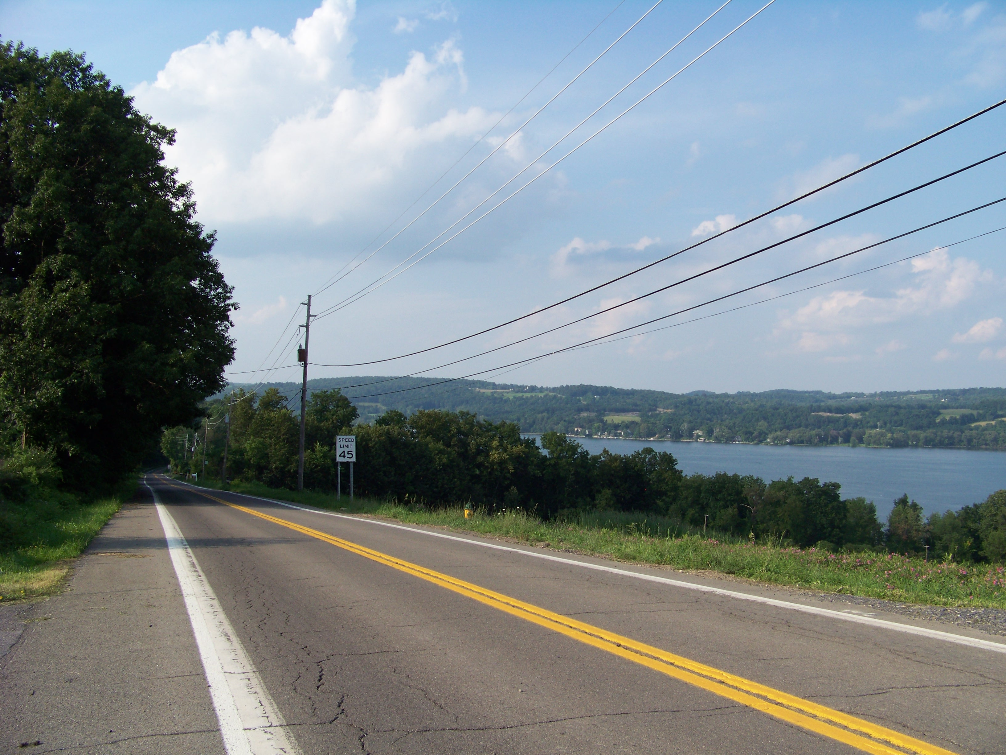 NY 174 heading north along Otisco Lake